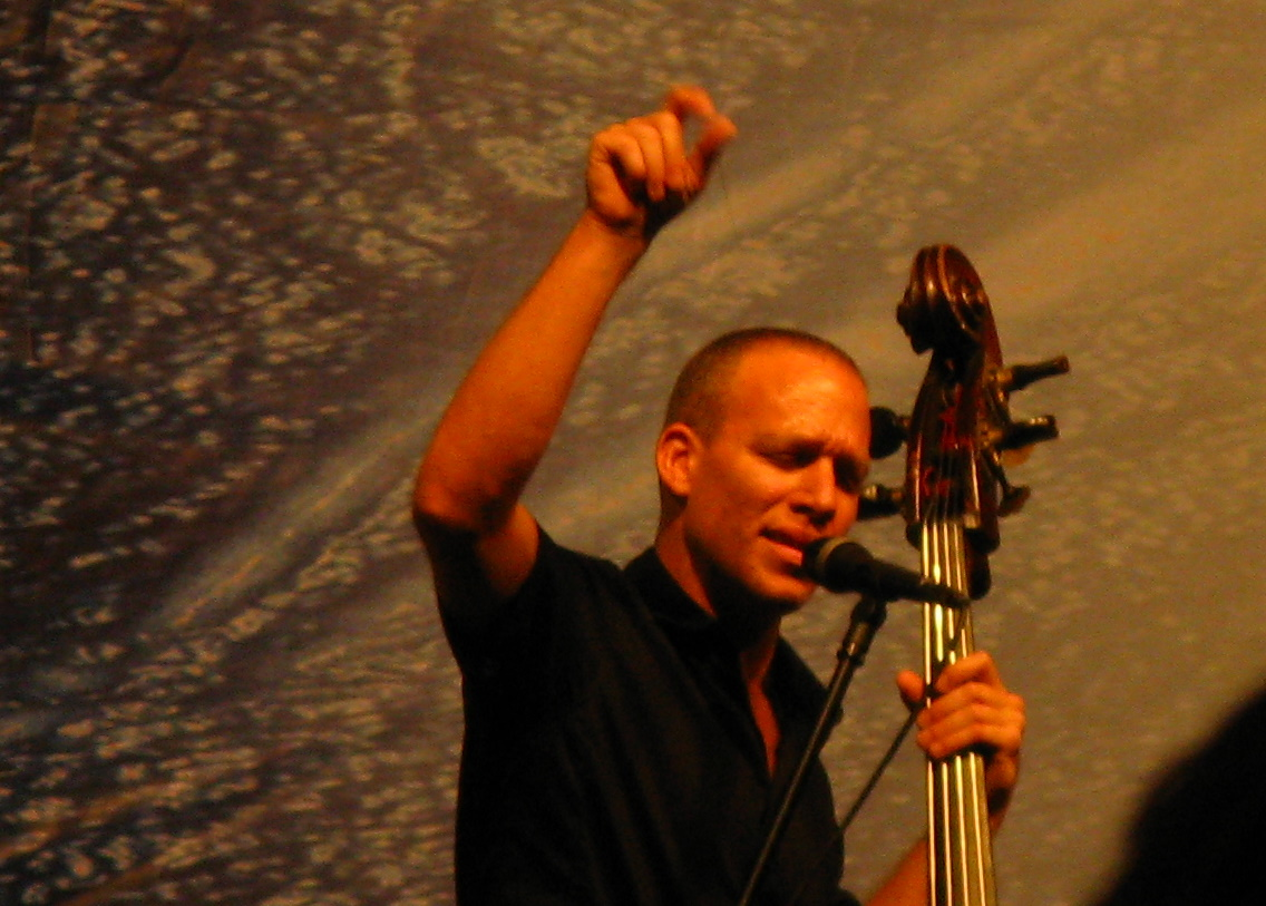 Avishai Cohen, Jazz na Starówce Festival, Warsaw Old Town Square, 2008-08-23.